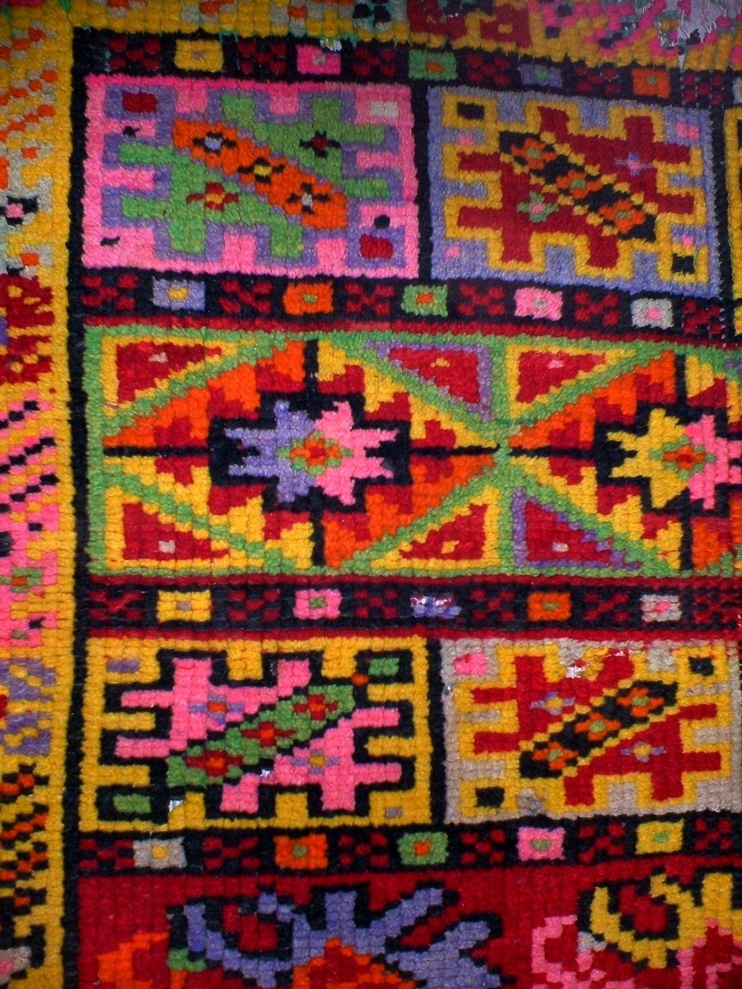 Old Berber carpet design from Mzab Valley Algeria